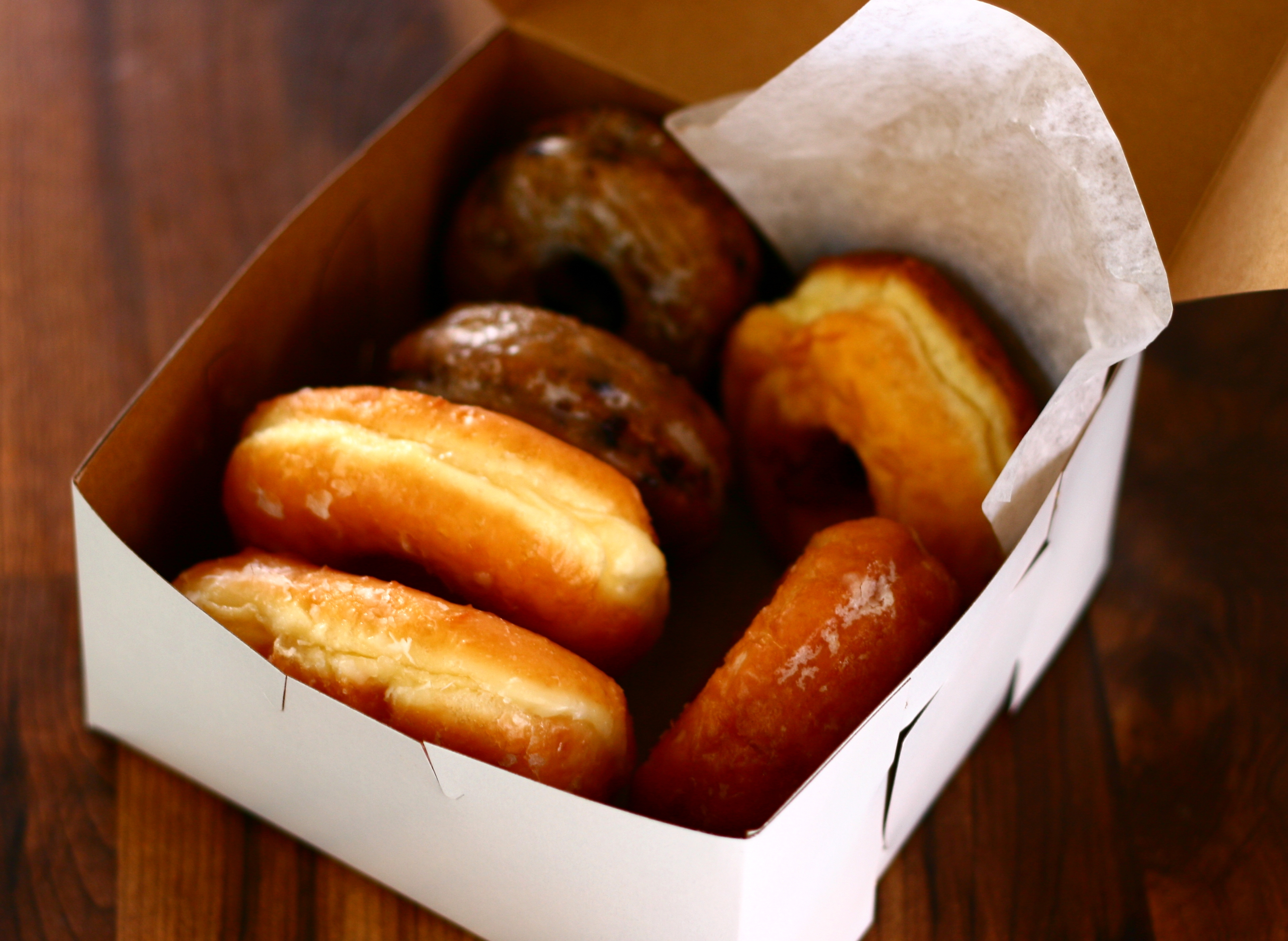 A pack of donuts, one of which is called the Ode doughnut, after the father of the Sandra Jane Eure's Day Old Food program founder